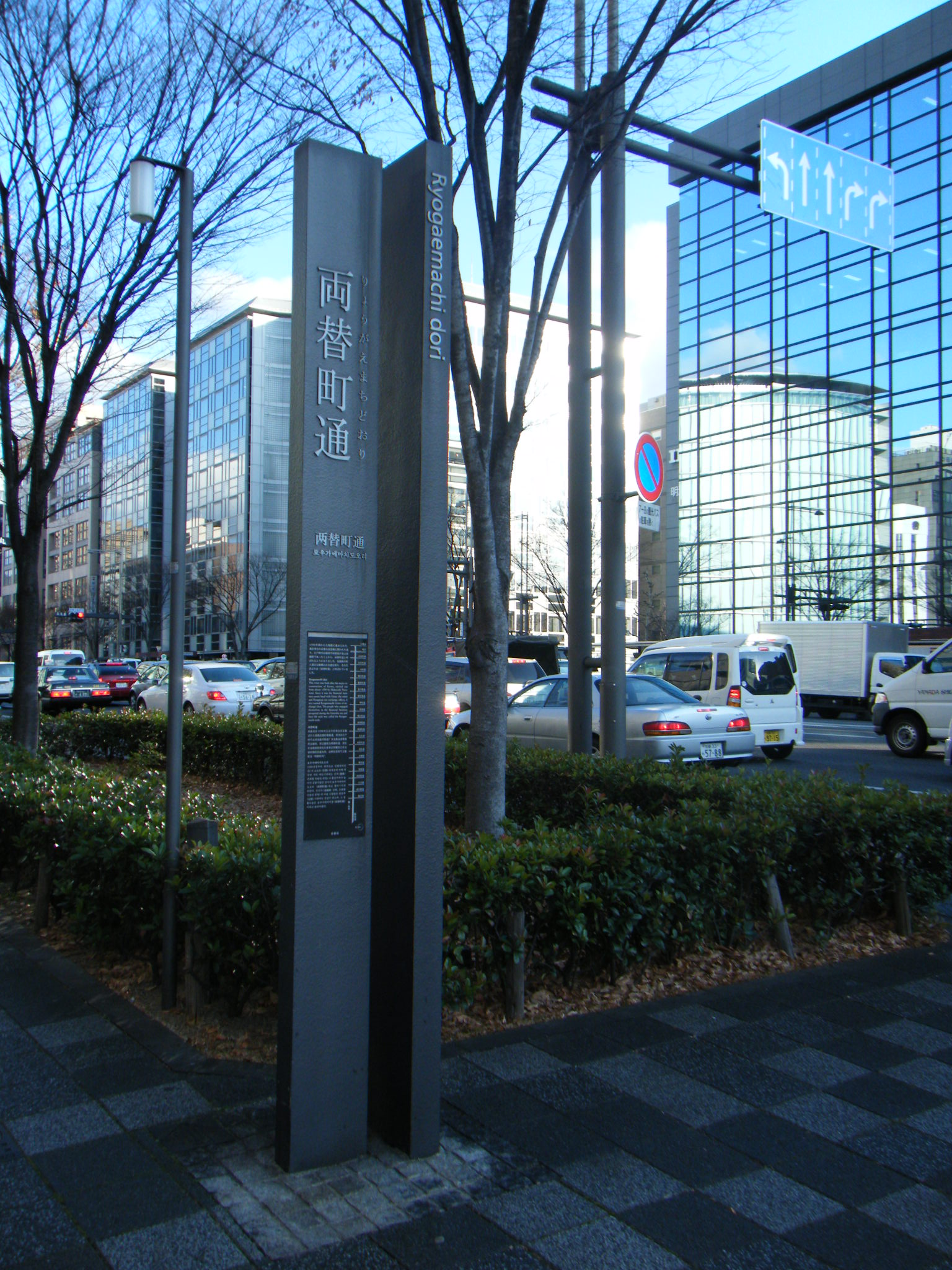 Ryogaemachi-street-Kyoto